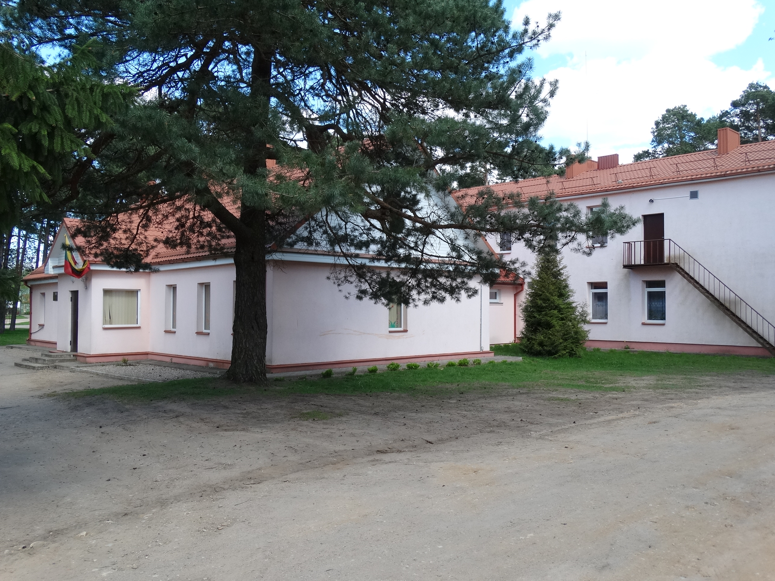 Basic school, Pabarė, Šalčininkai District, Lithuania